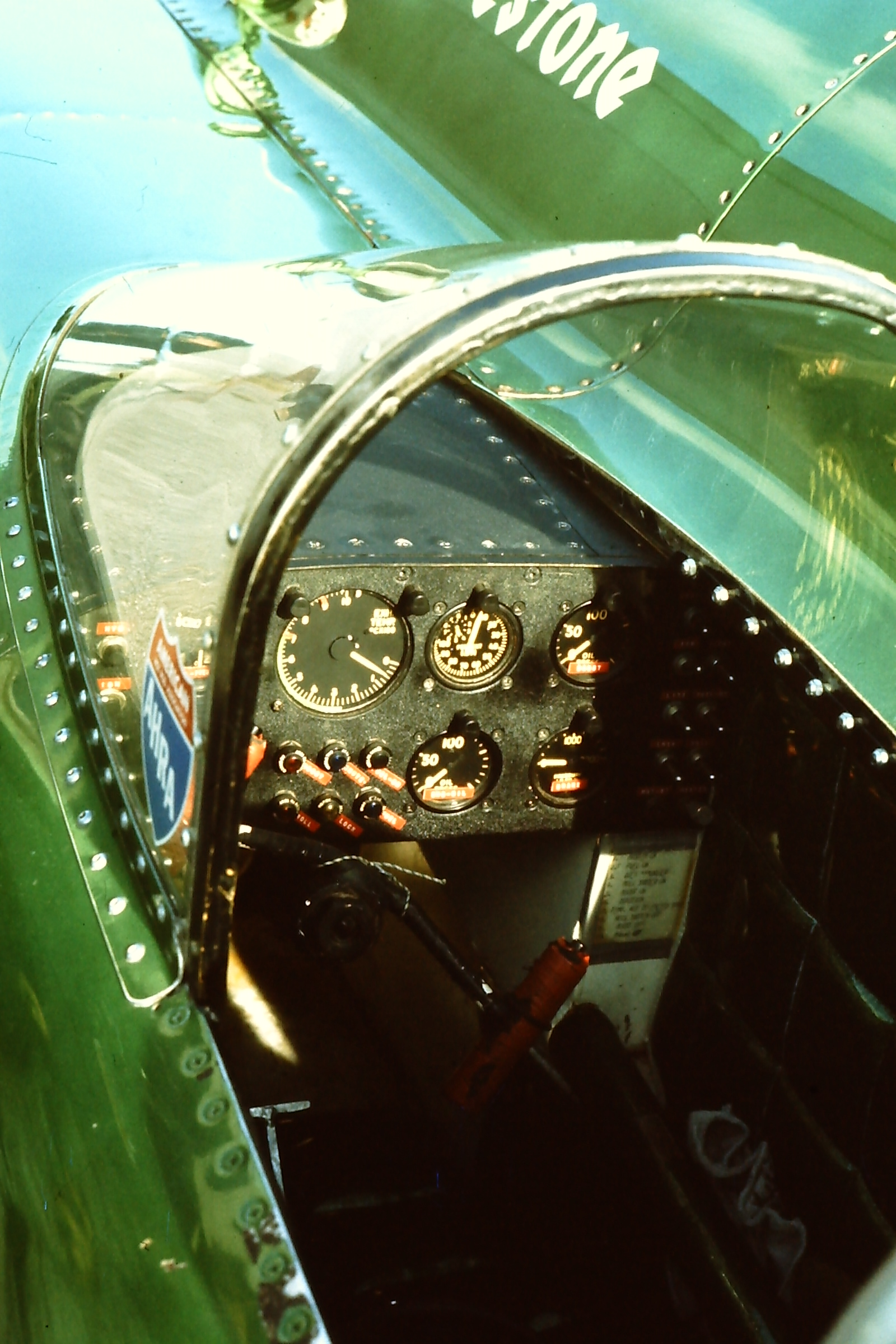 Taken during Art Arfons visit to Europe in the late 60's. He was actually trying to persuade my boss at firestone to pay for pontoons with smooth race tires at the front so he could get the water speed record